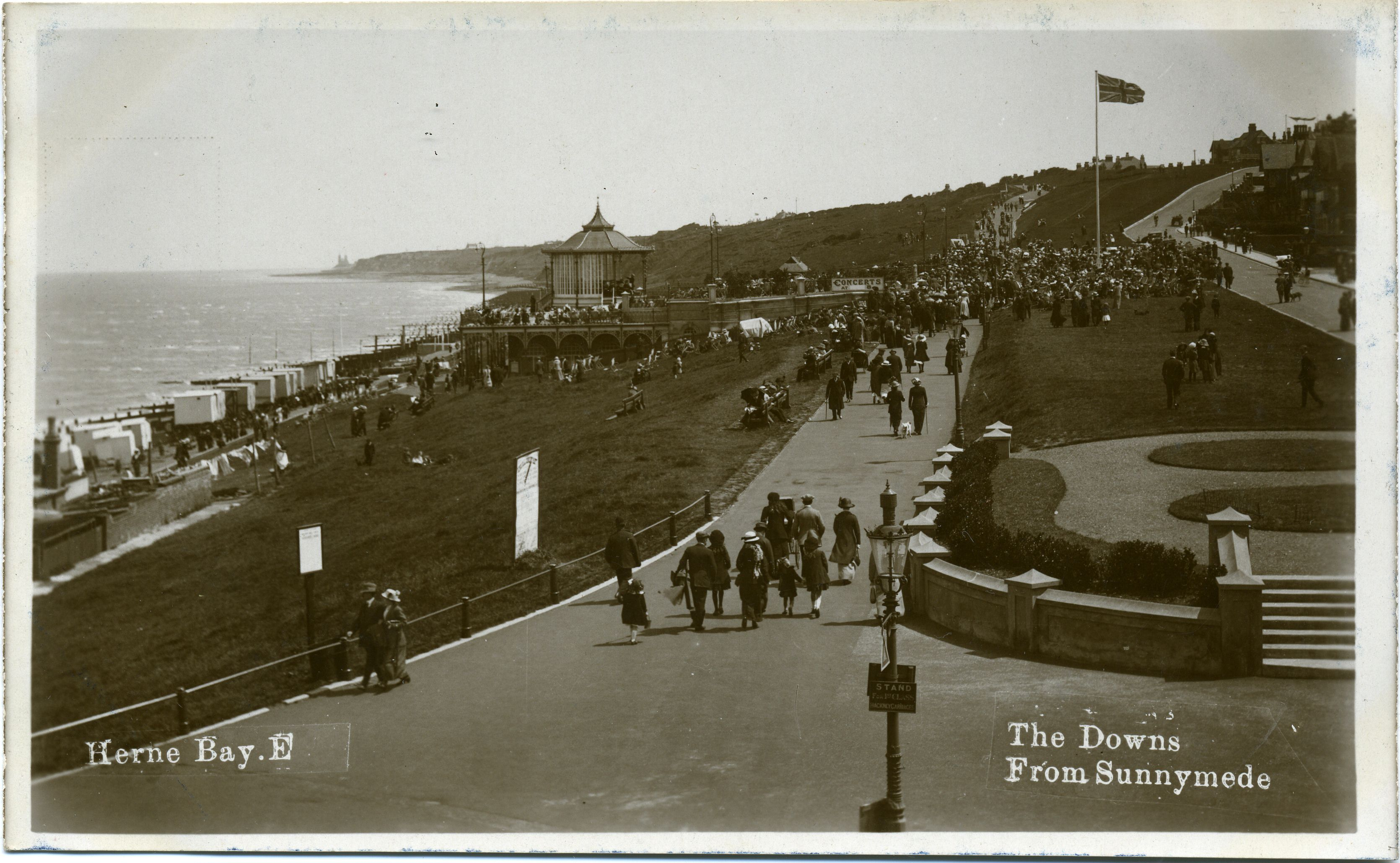 Postcard photograph of the King's Hall, Herne Bay, Kent, England, by Fred C Palmer. The card is unused and undated. The King's hall was built in 1904 and named the Pavilion or Bandstand until 1913 when its name was changed to King's Hall and it was rebuilt and extended underground. The quality of this card and the clothes worn by the pedestrians suggest a date around 1920, and Fred C. Palmer left Herne Bay by 1920, so the photo was probably taken in 1920 or just before. The title "The Downs from Sunnymede" suggests that the postcard was manufactured for use by a bed and breakfast hotel.